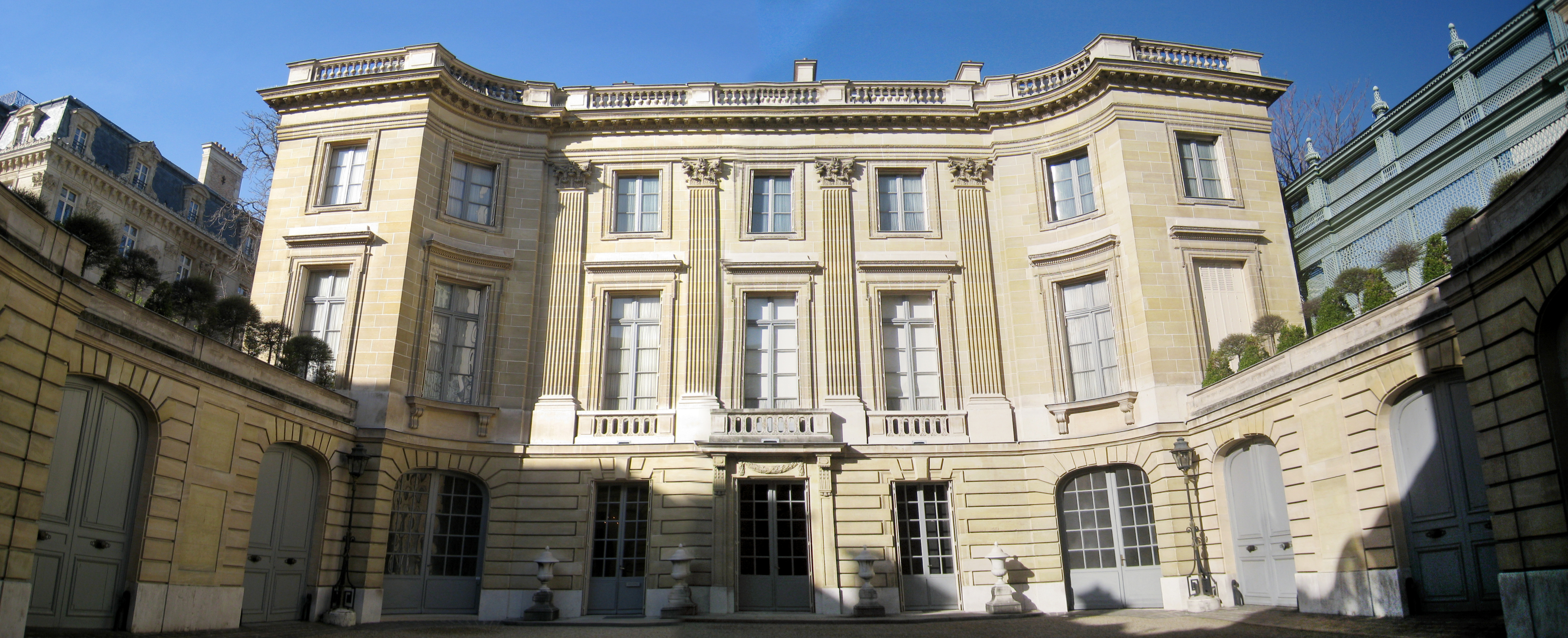 Musée Nissim de Camondo, Paris, France - exterior. There were no restrictions on photography (other than prohibiting flash) in writing and when I asked explicitly. Thus the museum did not impose restrictions on the use of this image.